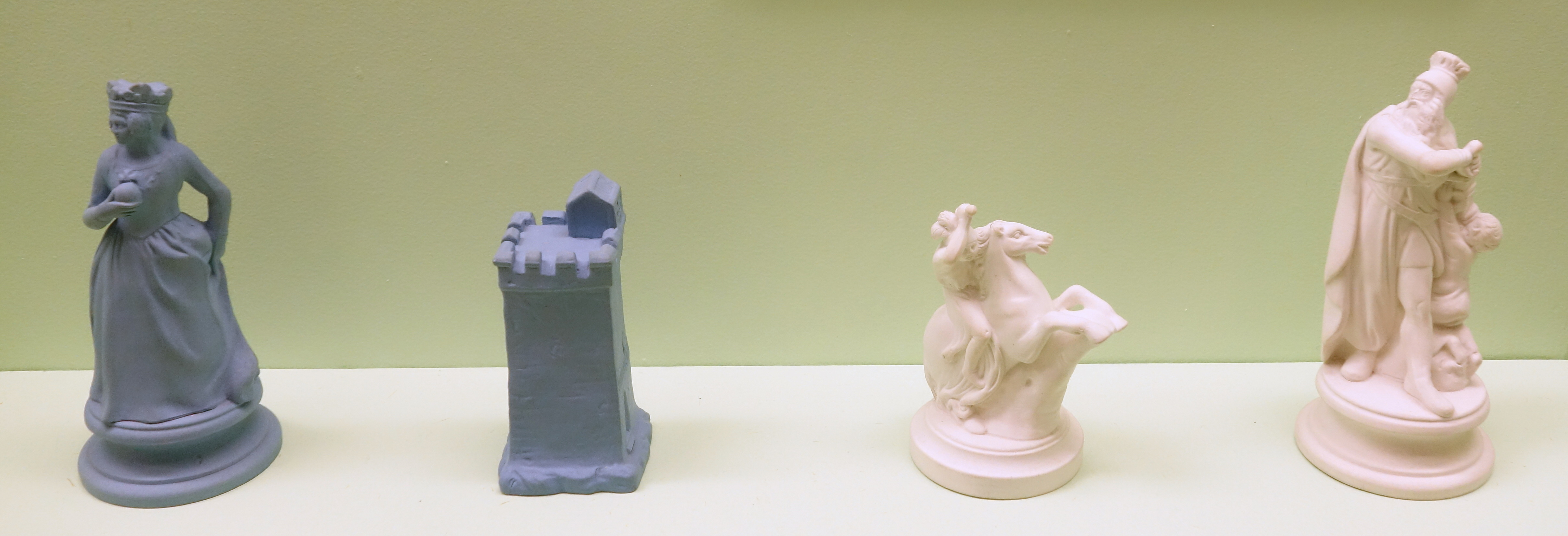 Exhibit in the Brooklyn Museum - Brooklyn, New York, USA. This artwork is in the public domain because the artist died more than 70 years ago.